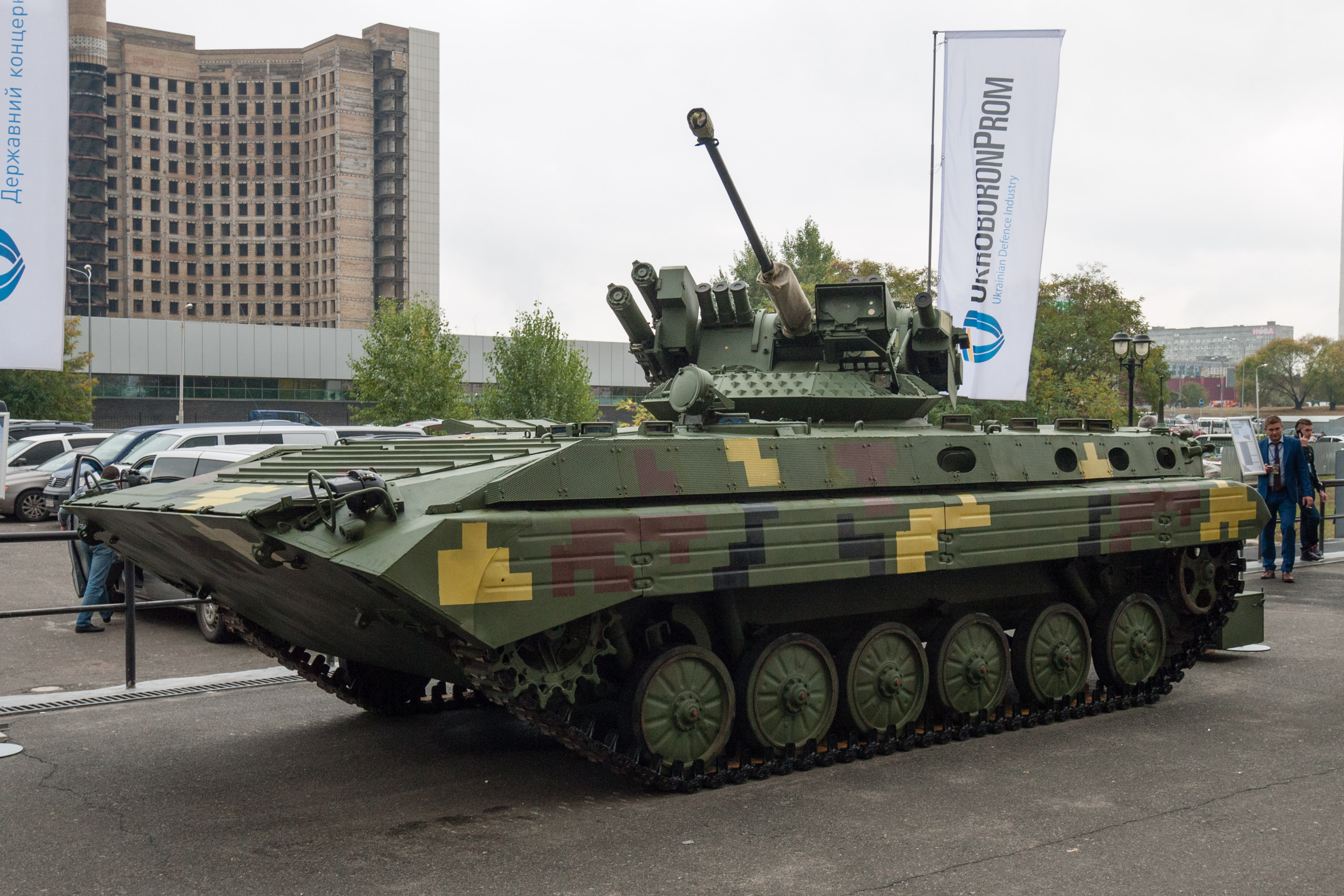 BMP-1UMD view